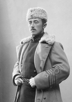 The balloonist and officer Vilhelm Svedenborg.